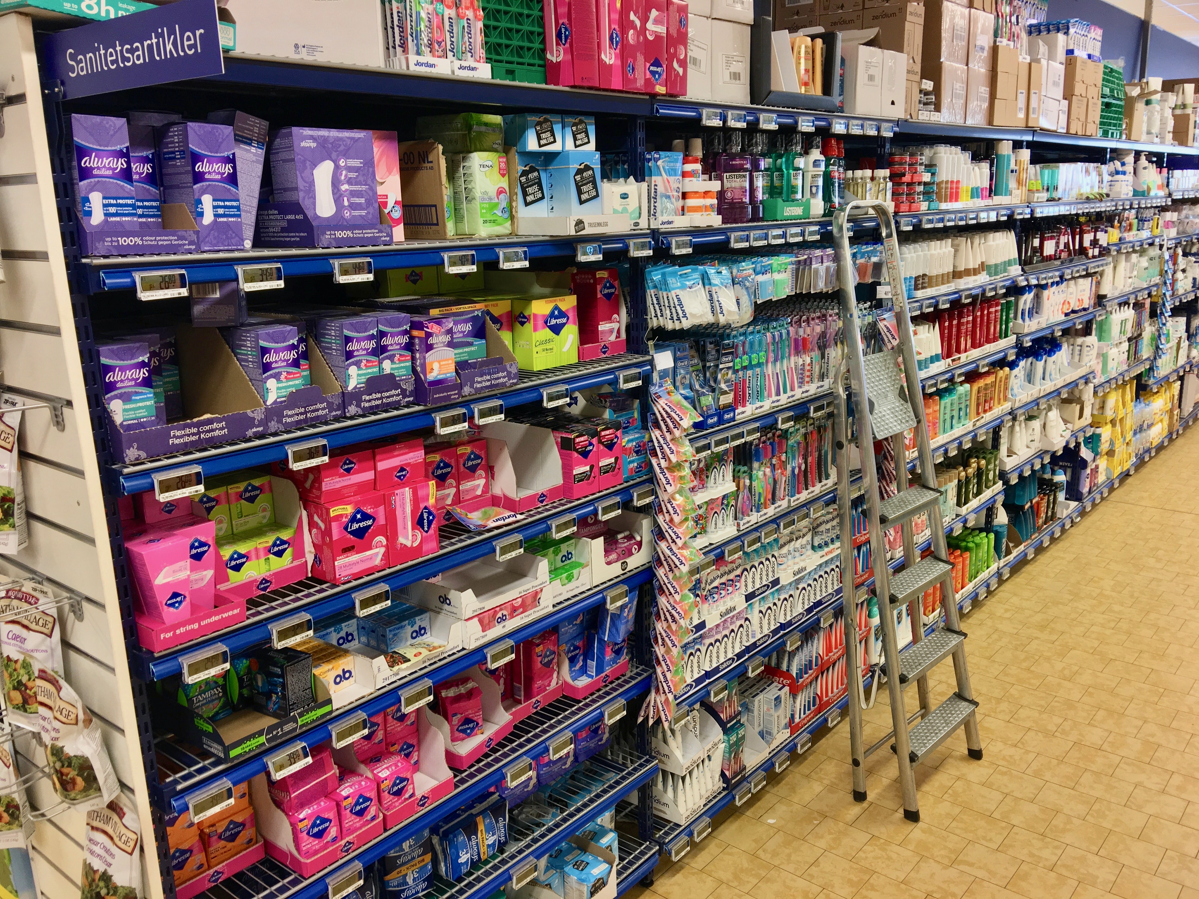 Aisle shelves with tampons, women's sanitary towels ("sanitetsartikler"), tooth brushes, health and body care products, etc. in REMA 1000 Supermarket, Osøyro, Hordaland, Norway 2018-03-19